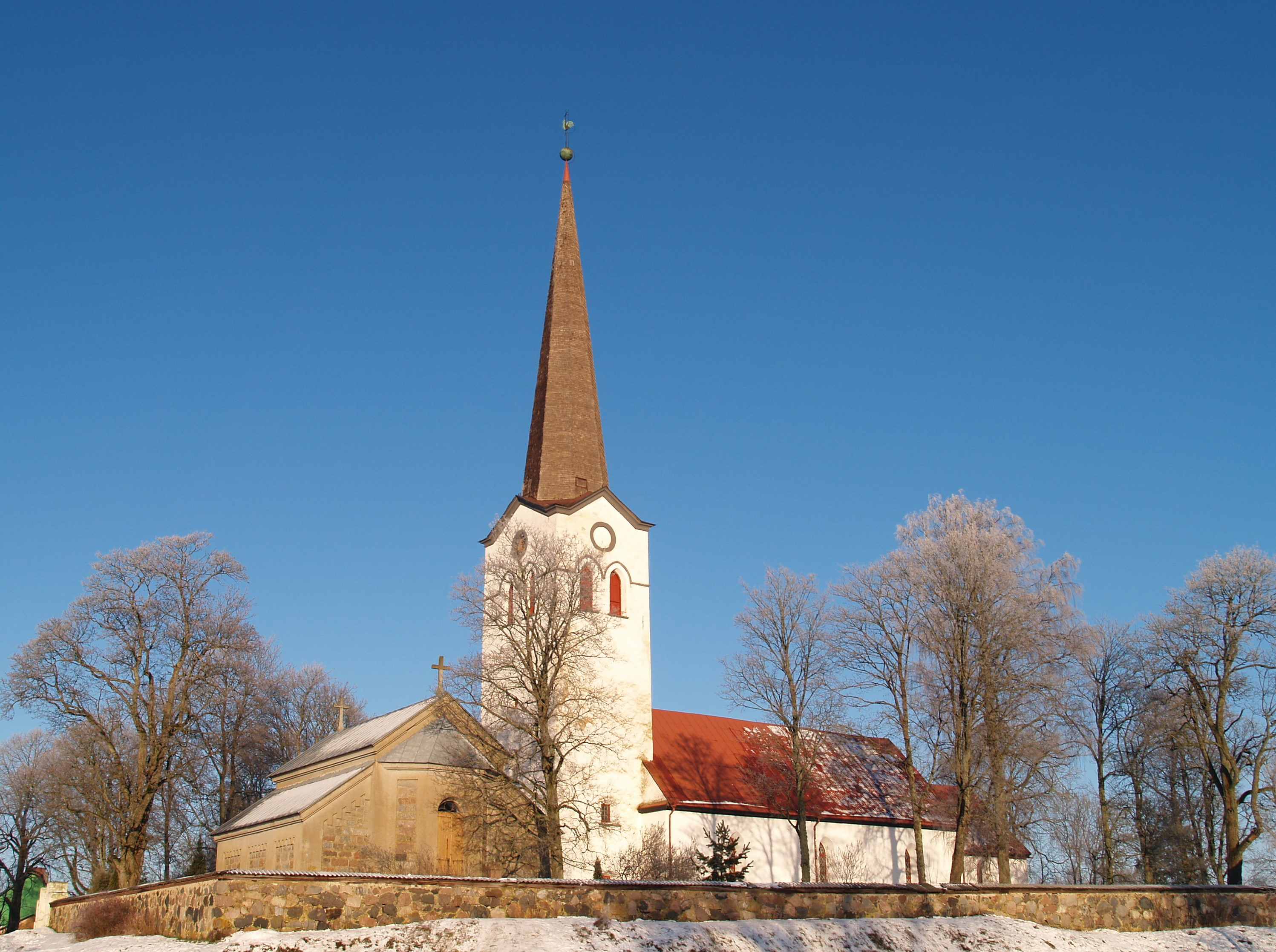 Kose Püha Nikolause kirik 2008. aasta talvel